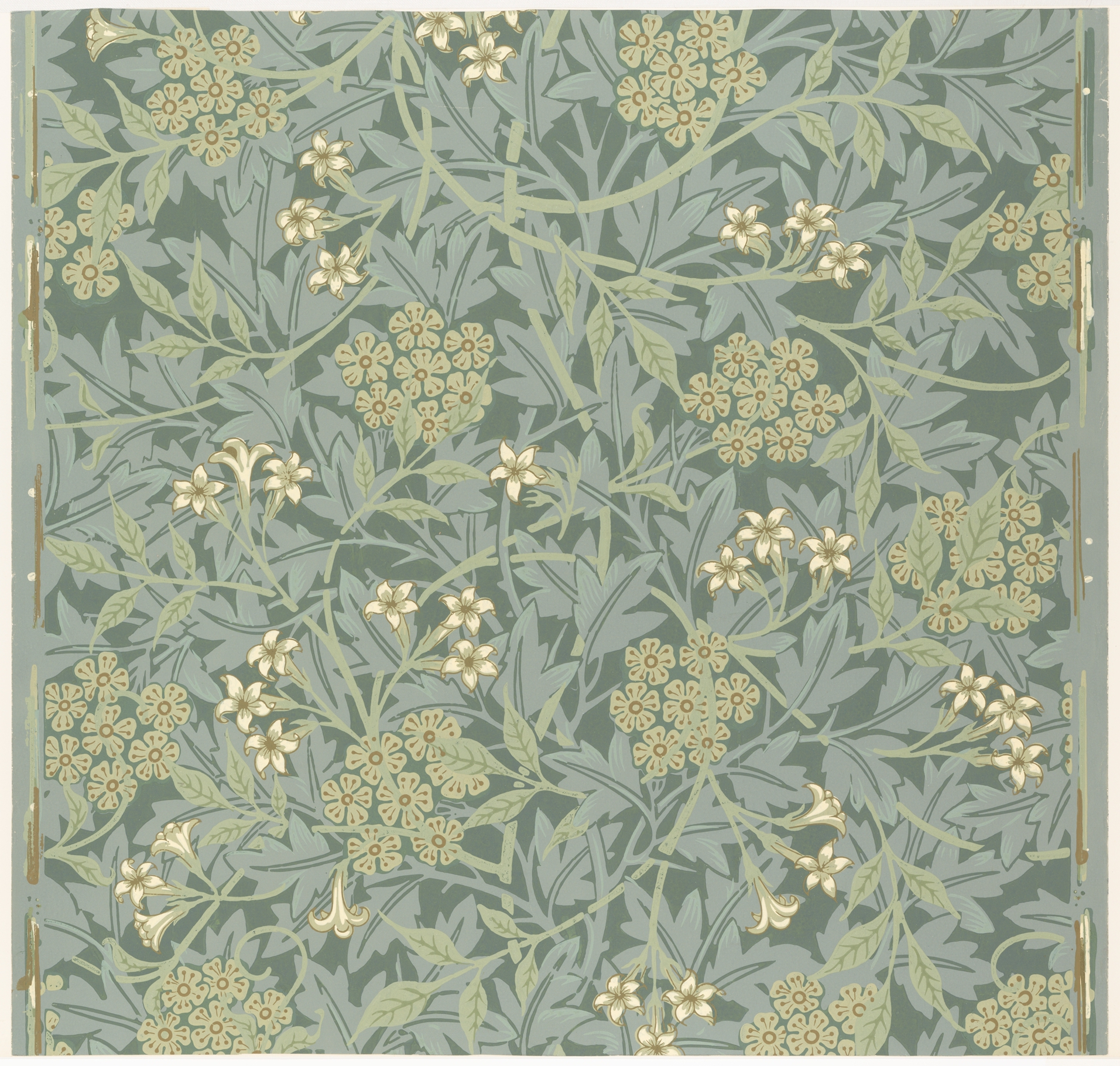 Wallpaper; Wallpaper